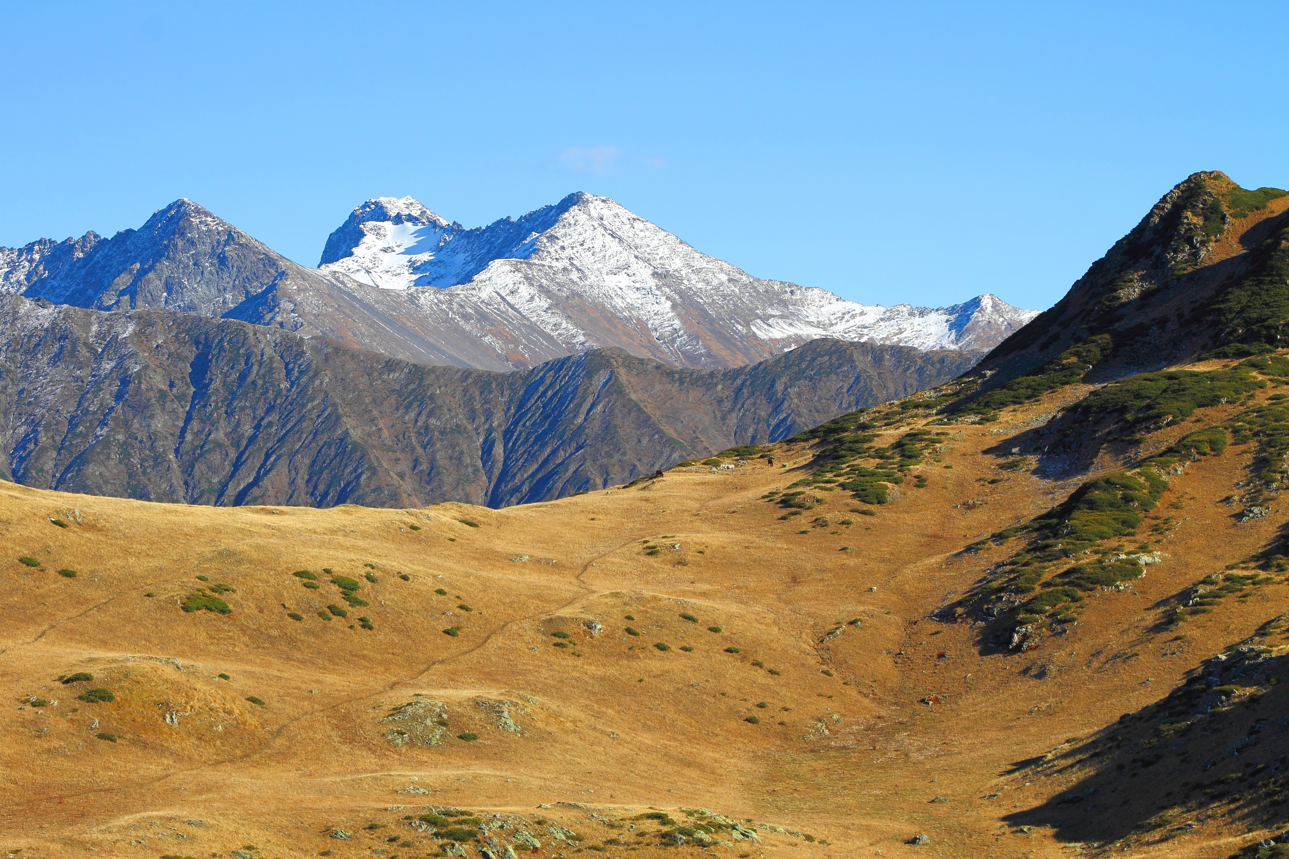 View of Greater Caucasus Range from top of peak of Tabunnaya near Krasnaya Polyana, Sochi. Fall 2015.